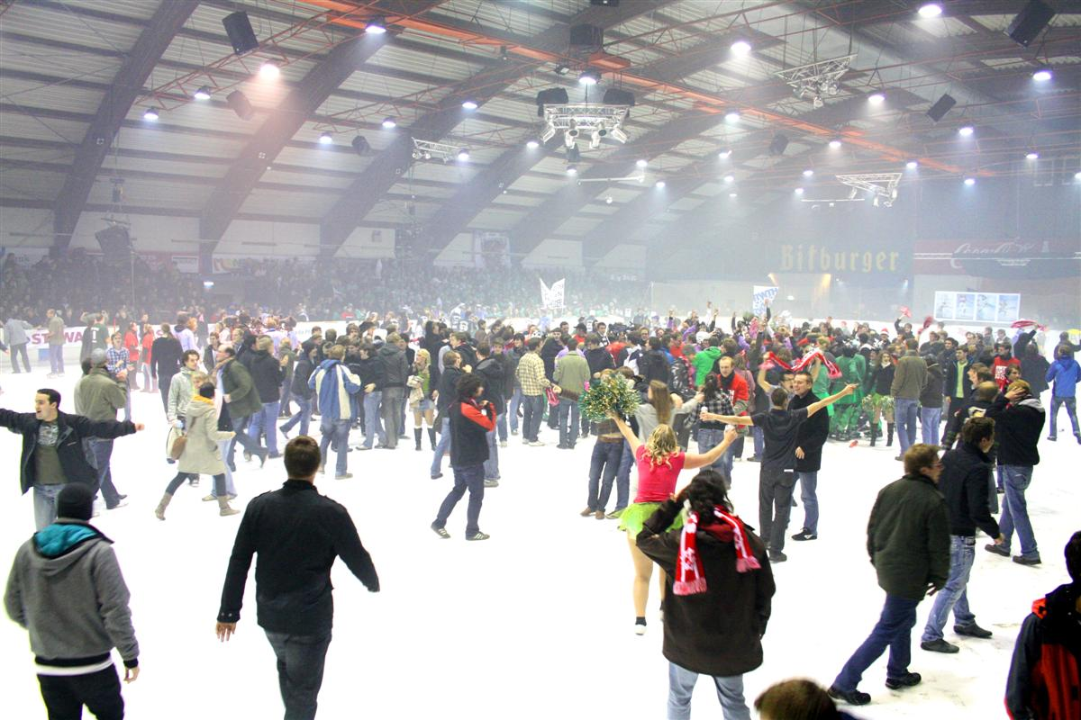 Celebrating crowd in the Tivoli ice stadium after the Ice hockey competition Uni-Cup 2009 of the University Sports Centre of Aachen University for the ThyssenKrupp-Trophy, Aachen, Germany